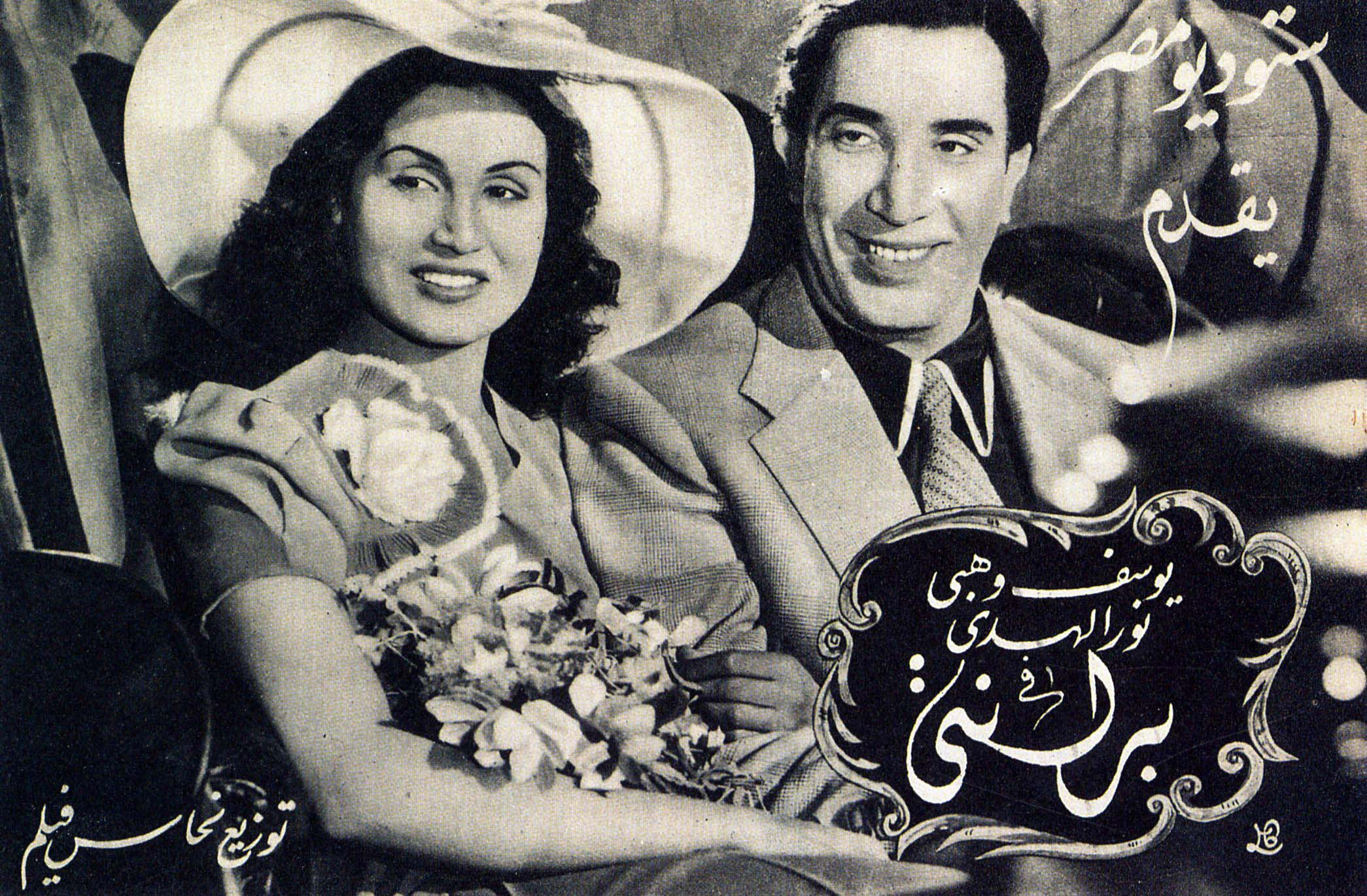 Movie poster of the Egyptian film Berlanti (1944).[1]